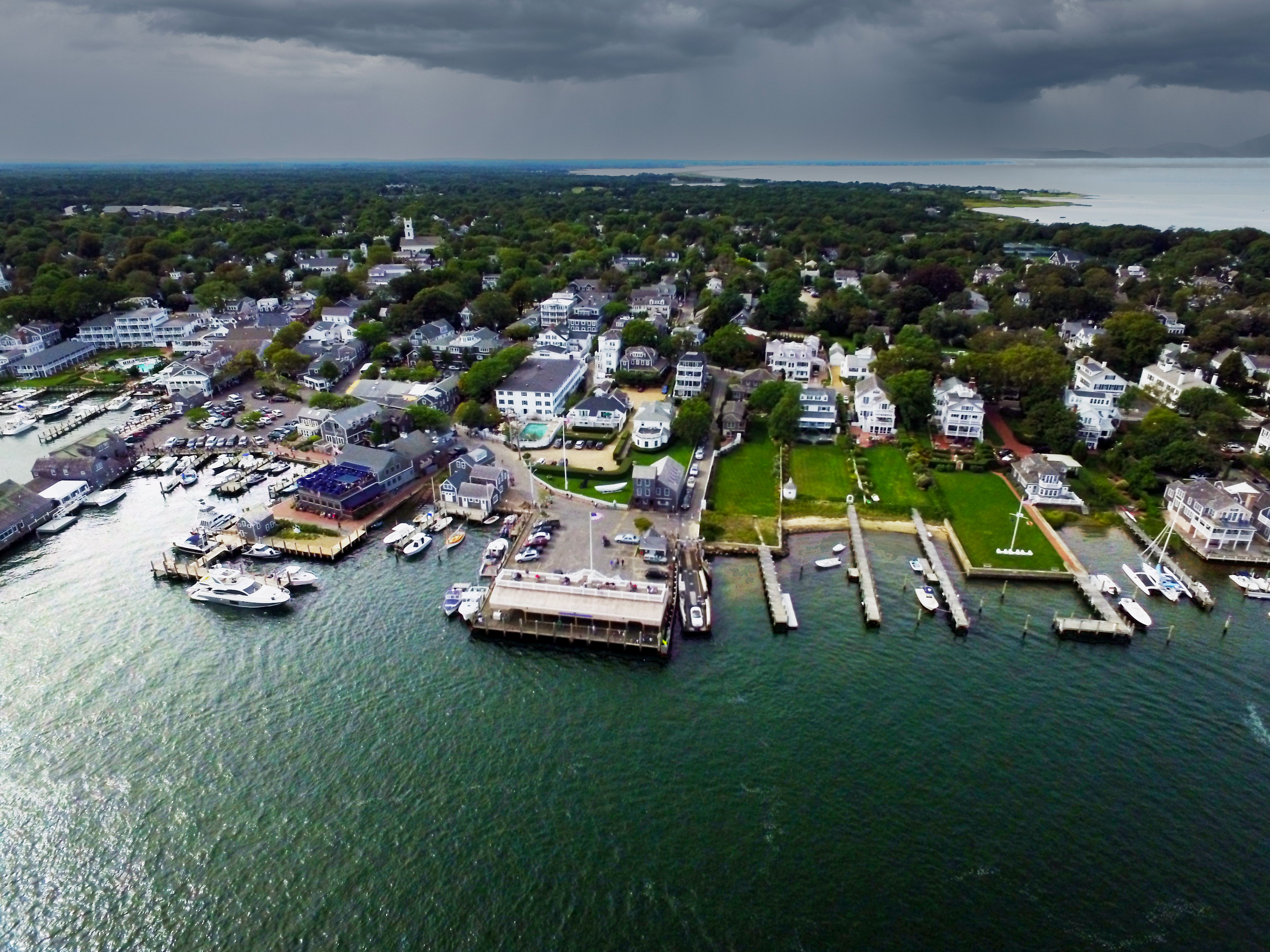 Edgartown Harbor Martha Vineyard by Don Ramey Logan